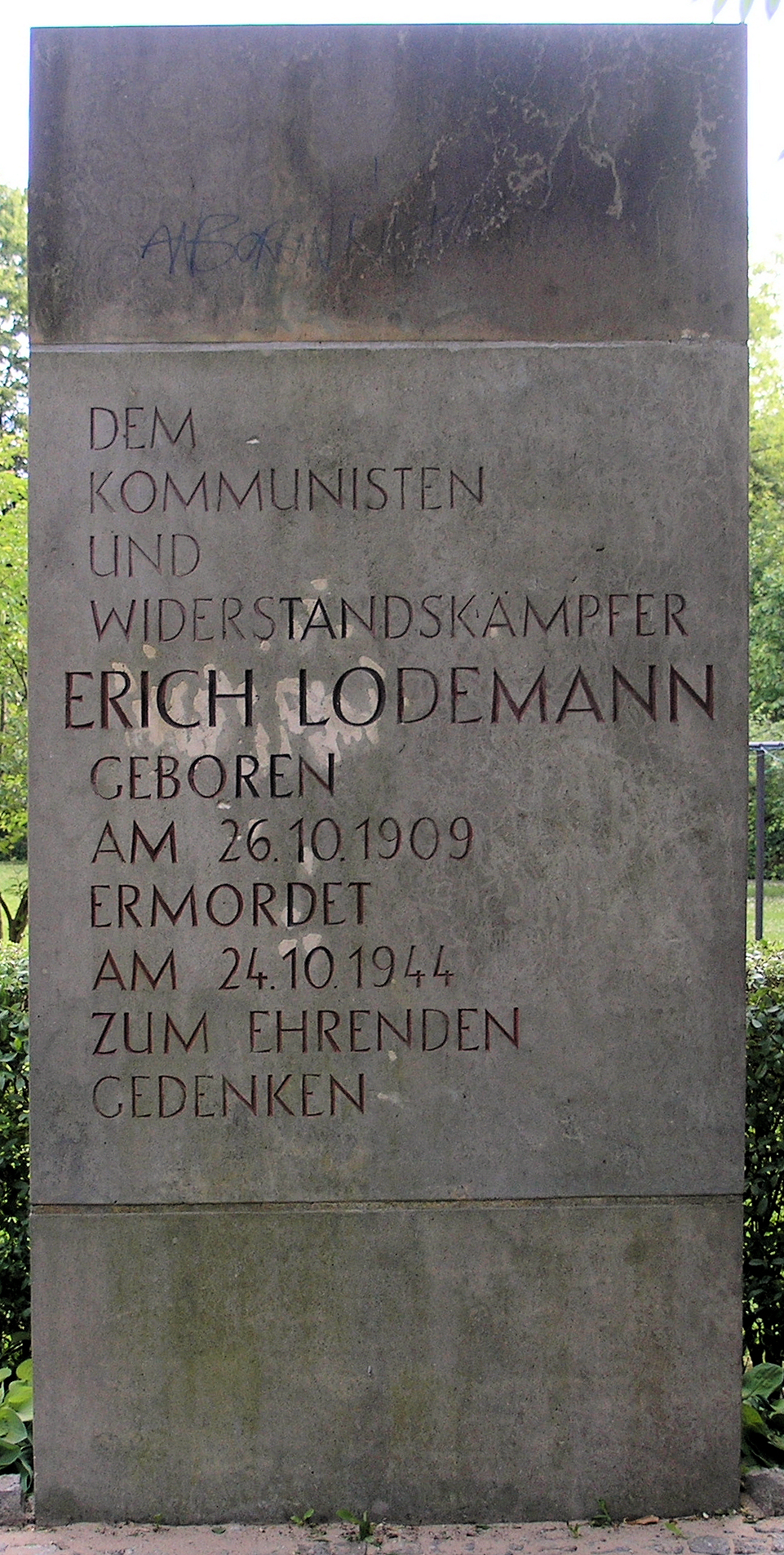 Memorial stone, Erich Lodemann, Erich-Lodemann-Straße 31, Berlin-Plänterwald, Germany Koordinate:52°28′37″N 13°28′36″E / 52.47694°N 13.47667°E